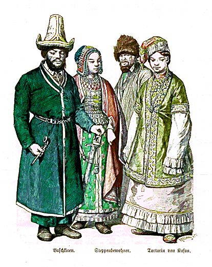 Bashkirs, Steppe Dweller, Tartar Woman from Kazan